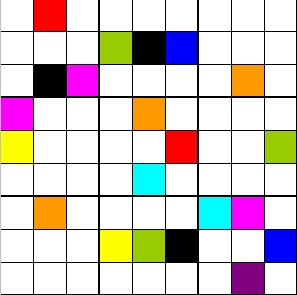 Depiction of the Sudoku 'Sudoku-by-L2G-20050714modif.svg' (see figure to the right) using colors instead of digits.